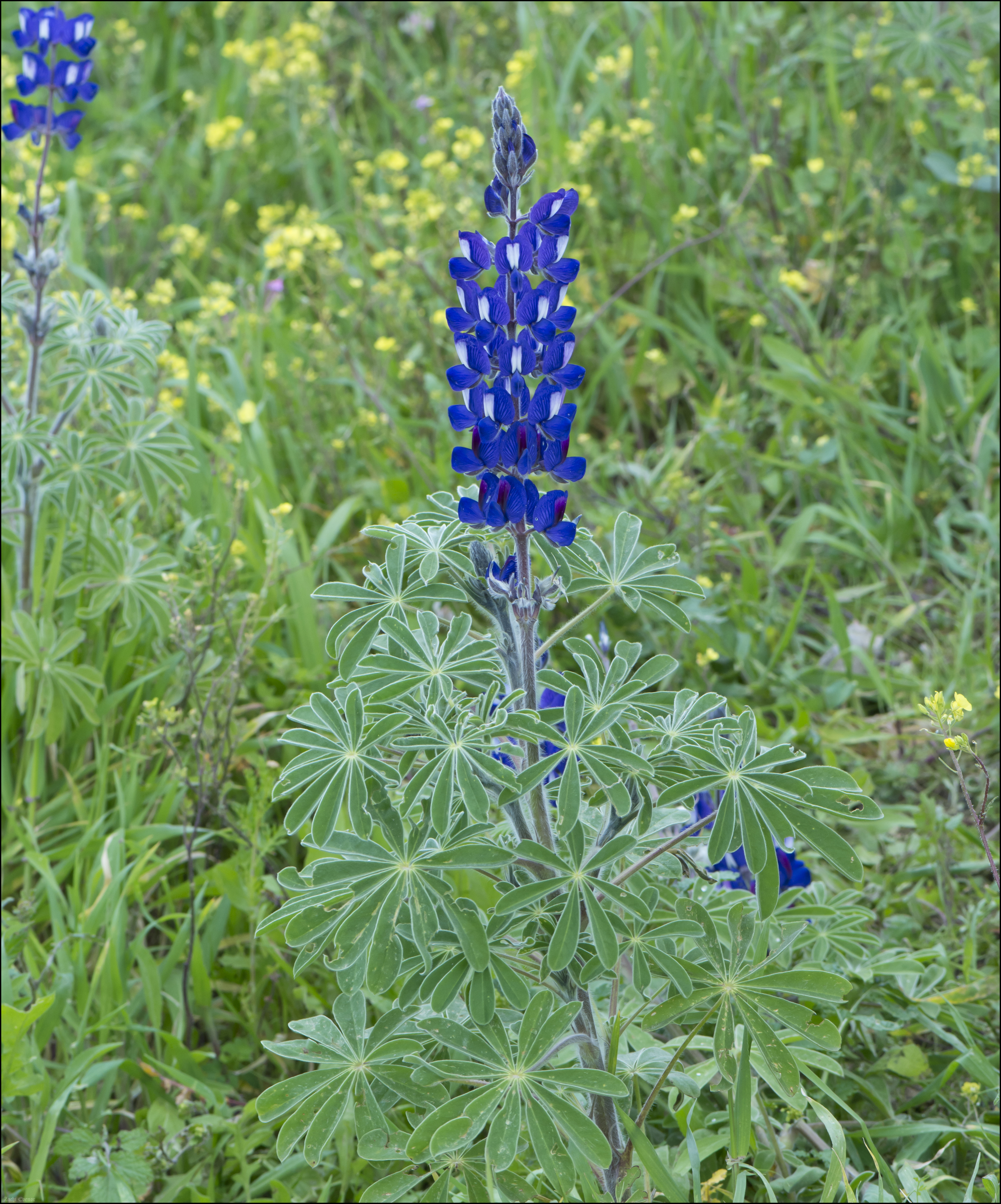 Lupinus pilosus,Tel Sukho, Emek HaElla, Israel, 2019-02-16